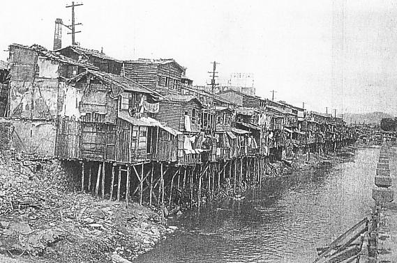 Frame house along Seikei-Sen(Cheonggyecheon)